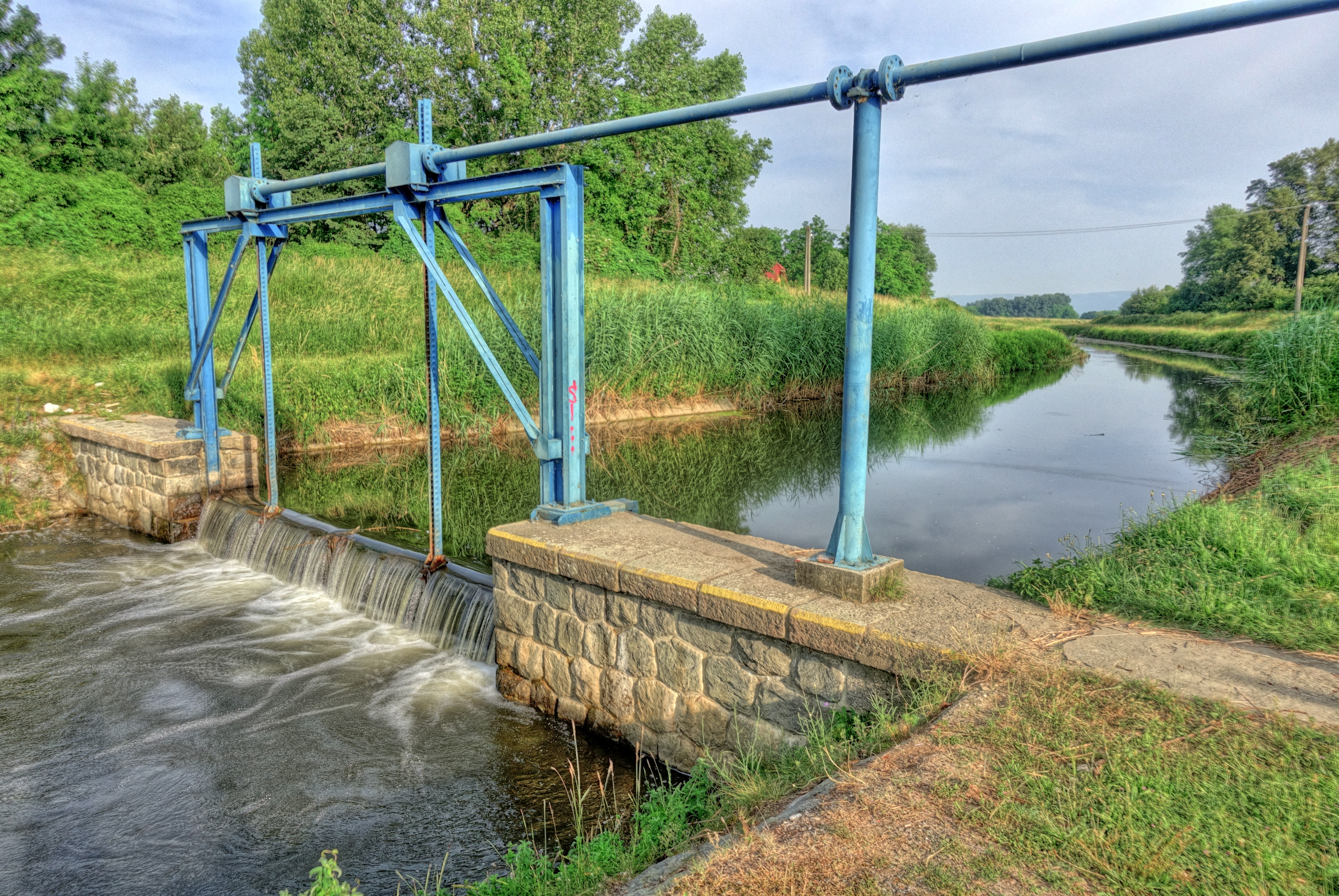 Floodgate at the end of Šúrsky kanál (on the right) and beginning of unregulated flow of Blatina (on the letf).